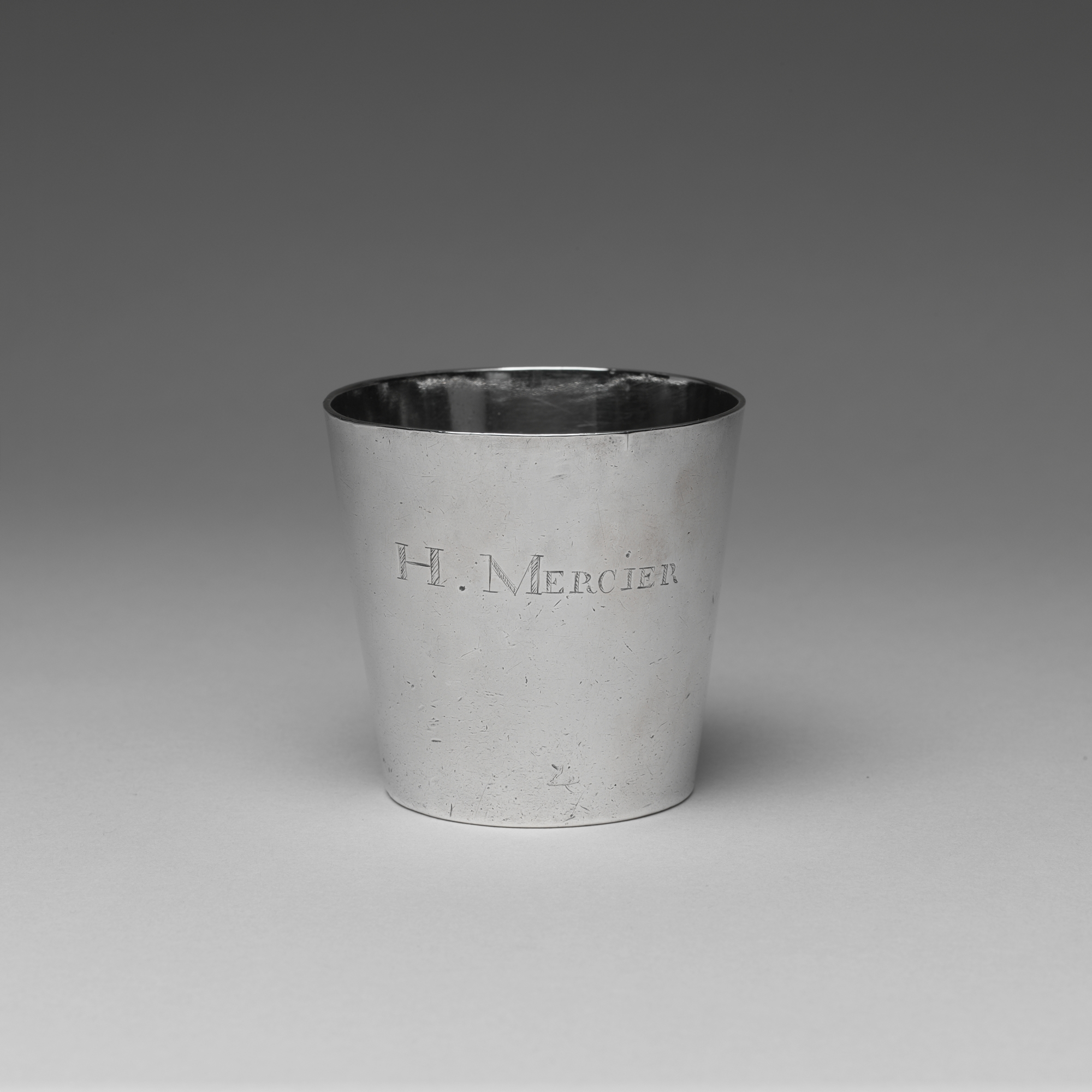 American; Beaker; Silver